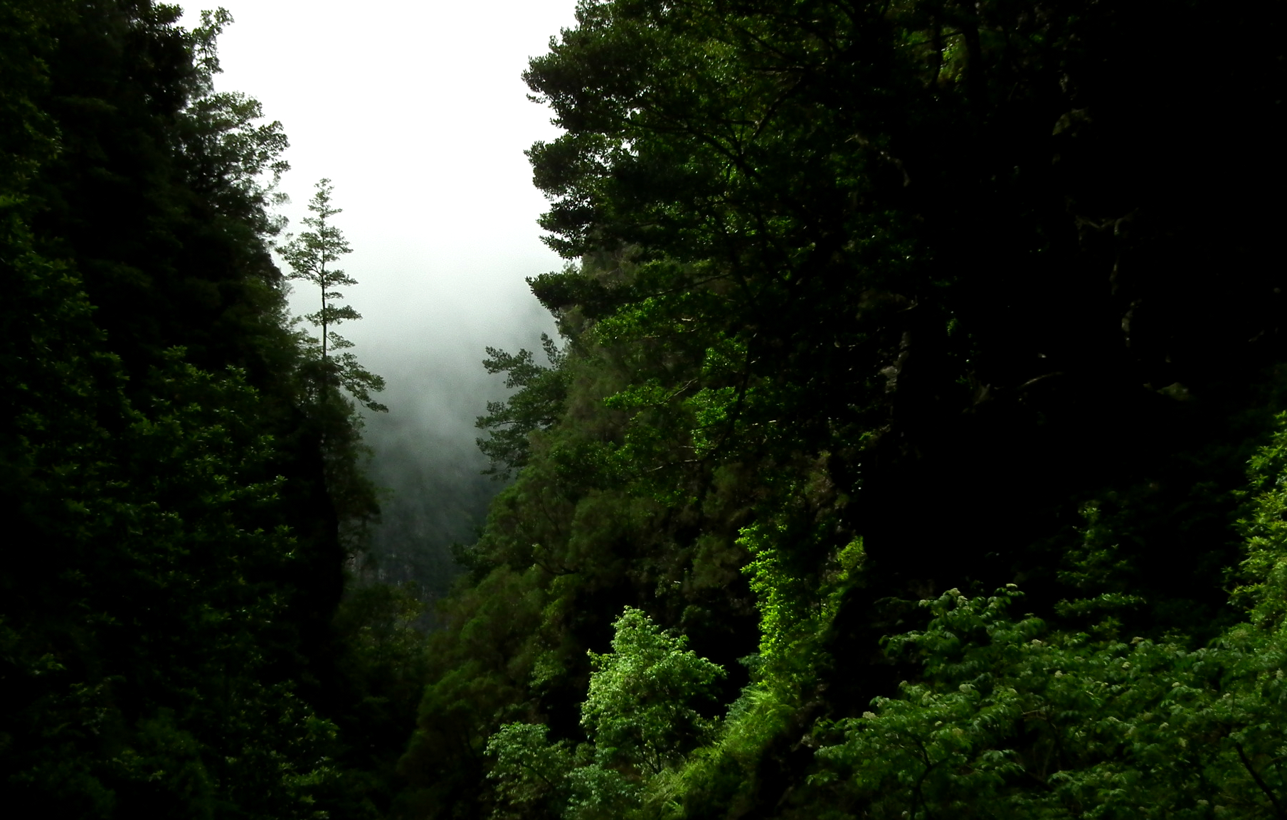 Old roads and passagens between villages and other places in Madeira Island (Atlantic Ocean) surronded by UNESCO protected pré historic forest. This is a photography of a Site of Community Importance in Portugal with the ID: PTMAD0001. Natura2000 entry, EEA entry